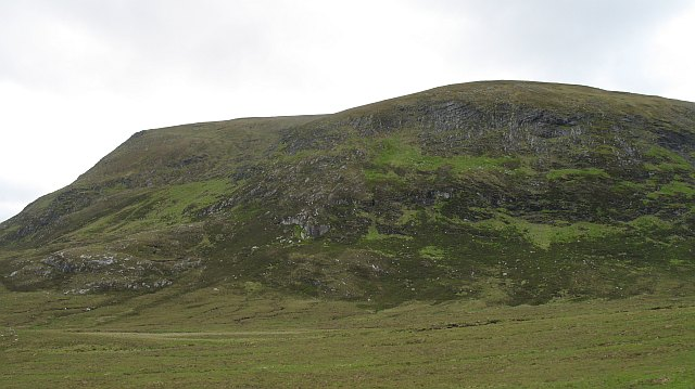 Creag a' Choire Ghlais The crag under the northernmost of the two main Ben Armine summits. The crags are wet and well vegetated.